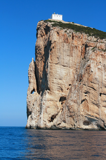 Capo Caccia and the lighthouse, Sardinia - Italy. Camera: Canon EOS 400D Digital License on Flickr (2011-01-20): CC-BY-2.0